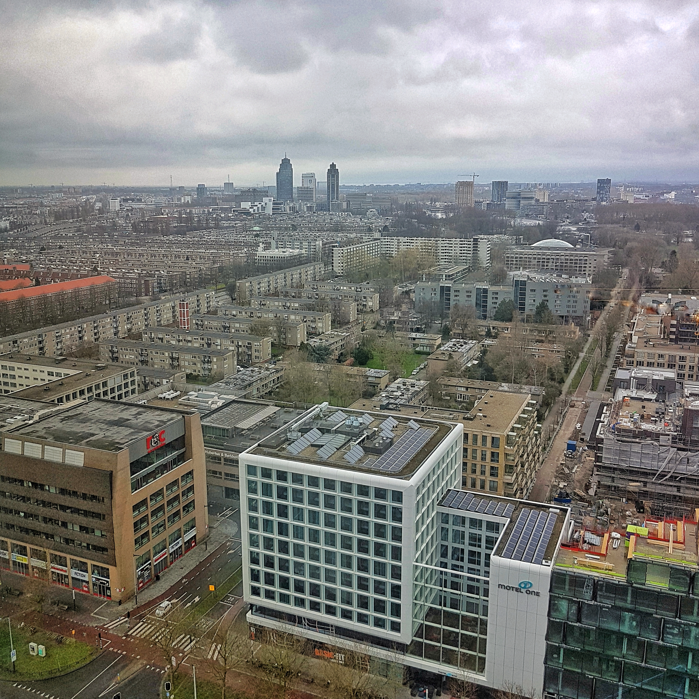 View of the Amsterdam Rivierenbuurt